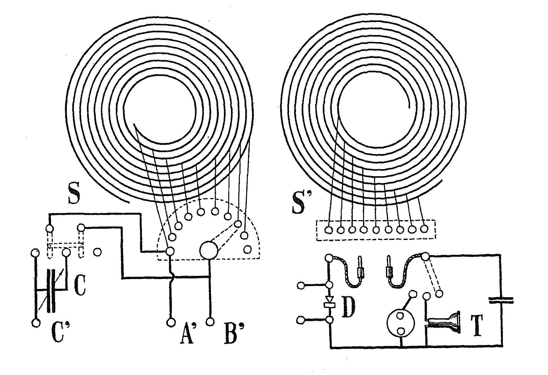 universial radio receiving apparatus